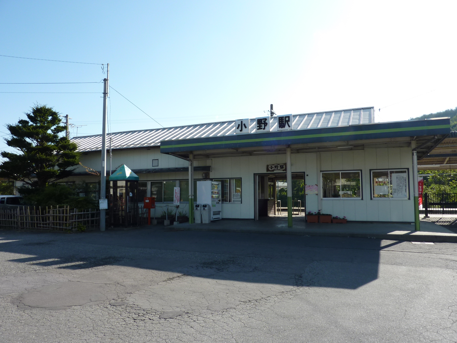 Ono Station on JR Chuo Line. (1289,Ono,Tatsuno-machi,Kamiina-gun,Nagano-ken,JAPAN)